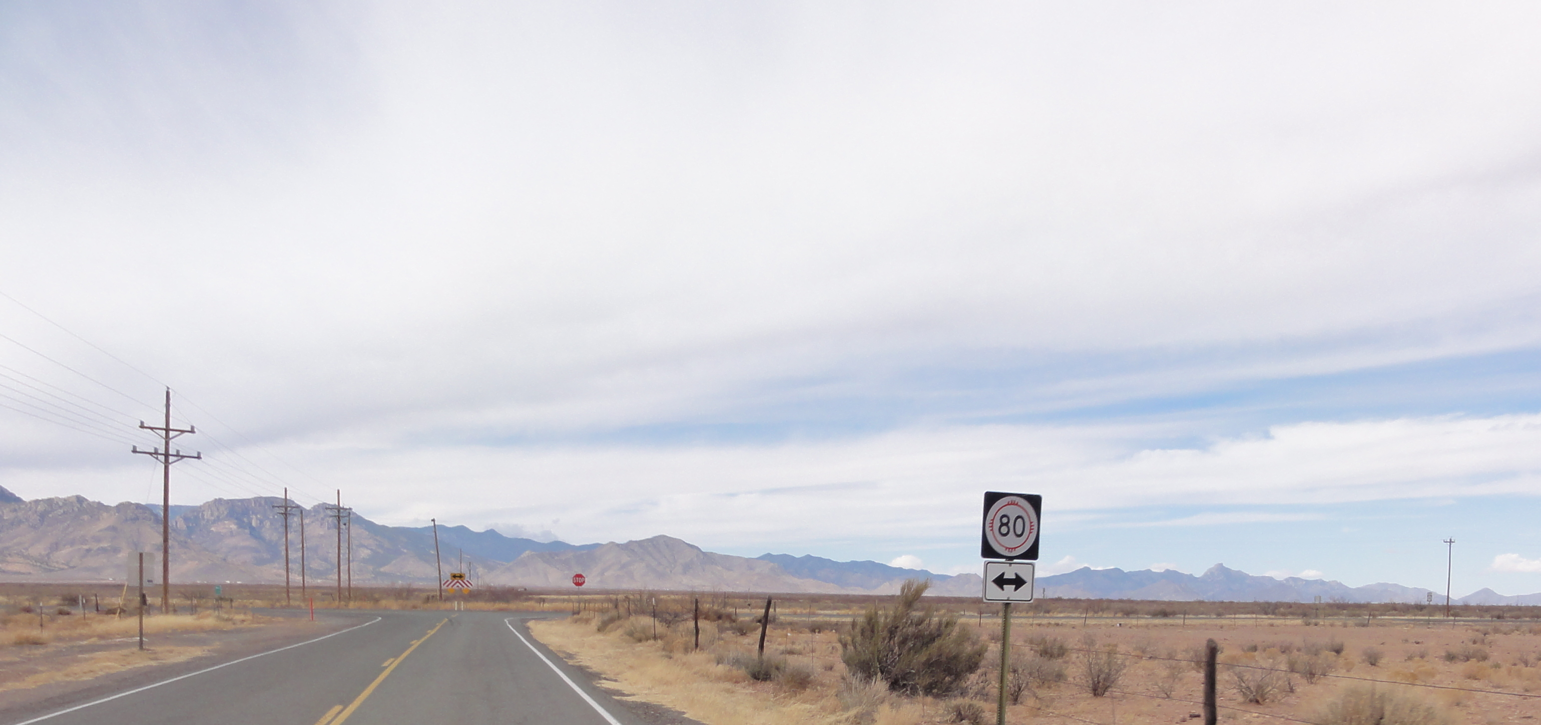 New Mexico State Road 9 approaching its junction with New Mexico State Road 80